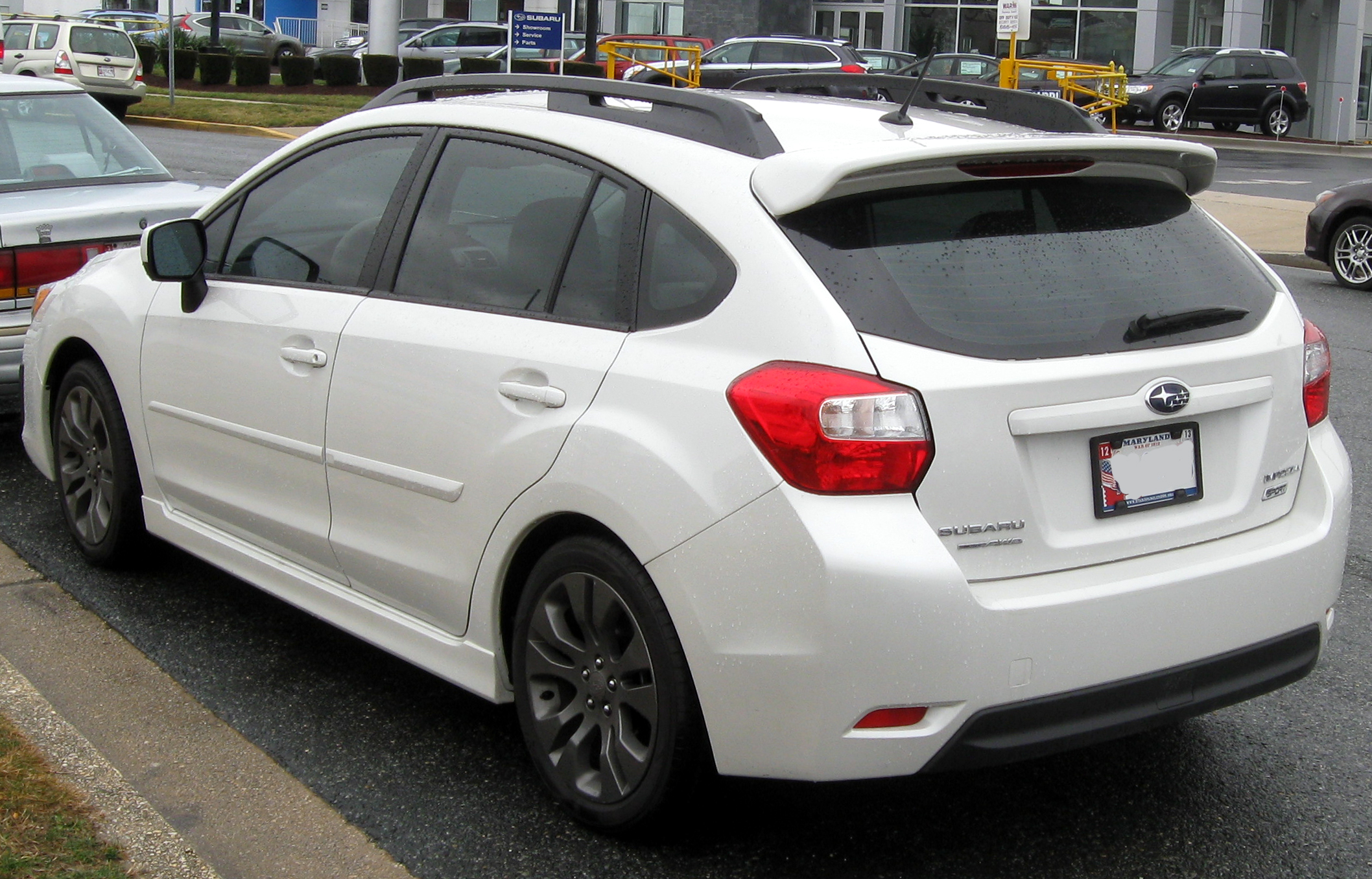 2012 Subaru Impreza photographed in Silver Spring, Maryland, USA.